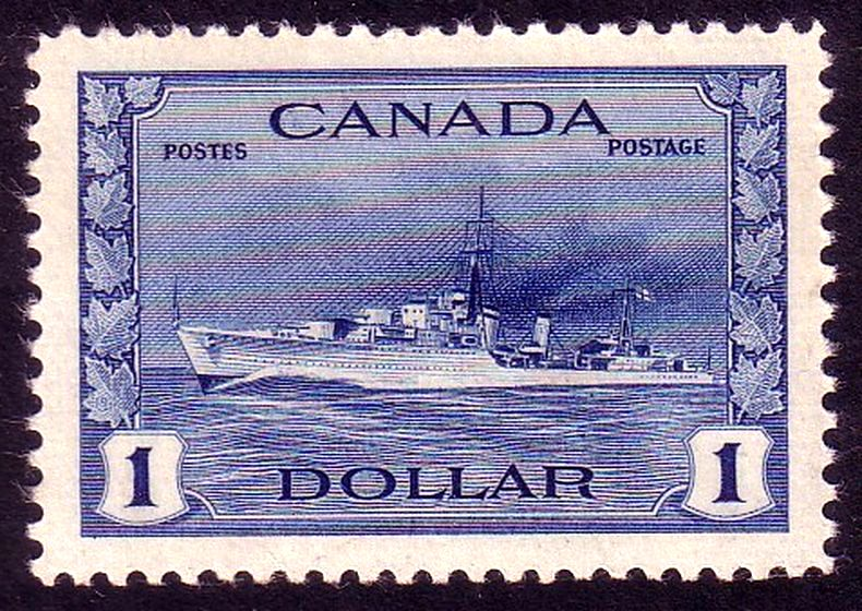 Canada postage stamp, 1942 issue, $1. Steel engraving. Canadian Bank Note Co. Ltd. Ottawa. [1] Date of issue 1 July 1942.Tribal class destroyer, Royal Canadian Navy.